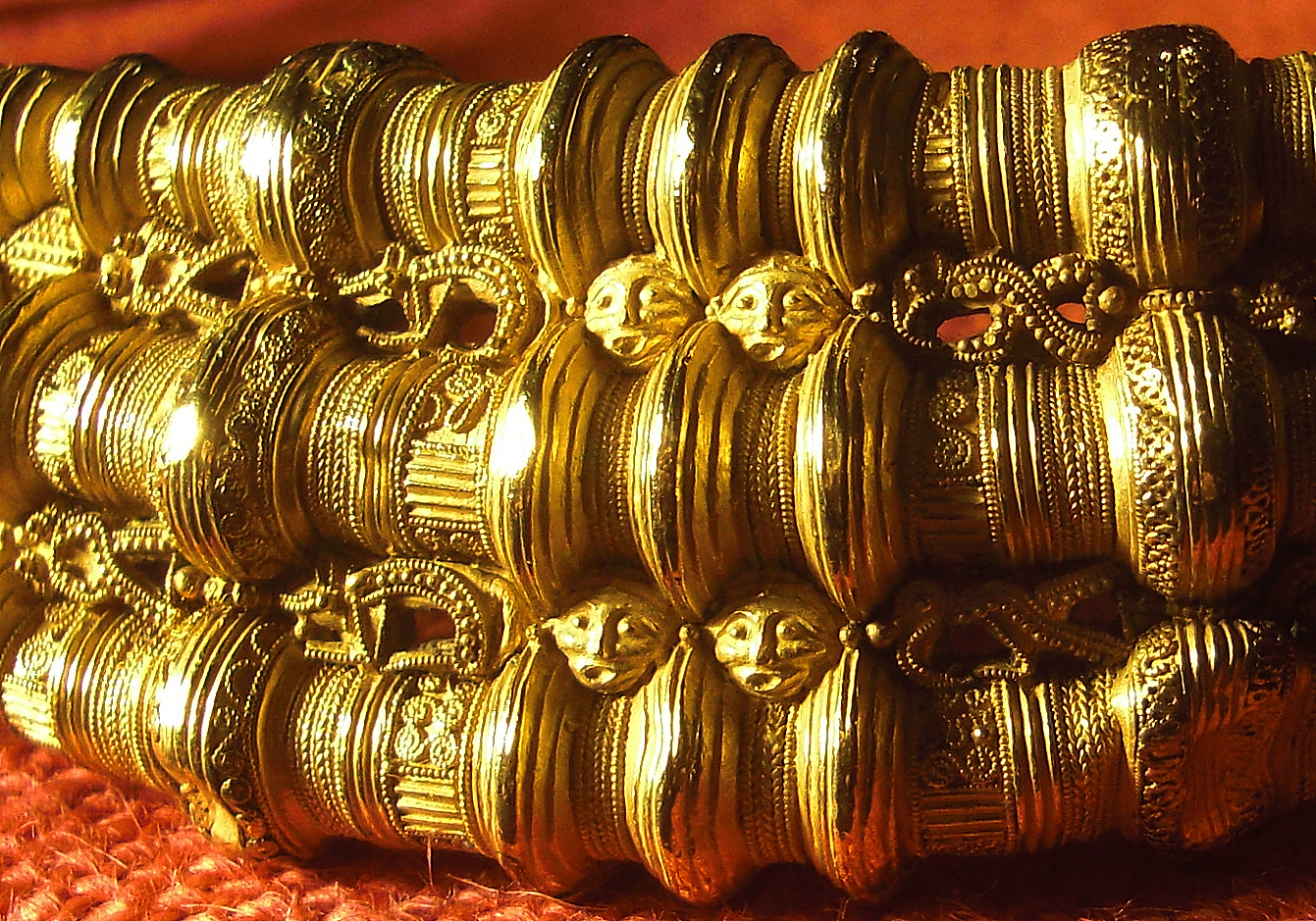 Detail of a copy of Ållebergskragen (i.e. "The golden collar of Ålleberg") that since 1994 is shown in the exhibition "Forntid på Falbygden" (i.e. "Prehistory in the Falbygden area") at Falbygdens museum in Falköping, Västergötland, Sweden. Ållebergskragen was found in 1827 at the northen slope of the table-mountain Ålleberg, Karleby Parish, Vartofta Hundred, Västergötland, Sweden. The golden collar belongs to the Migration period.